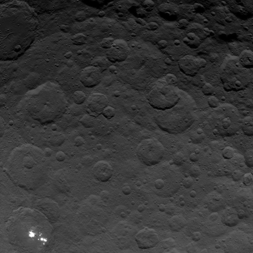 Image of the bright spots on Ceres taken on July 24, 2015 by NASA's Dawn mission. PIA19604: Dawn Survey Orbit Image 35 This image, taken by NASA's Dawn spacecraft, shows the brightest spots on dwarf planet Ceres from an altitude of 2,700 miles (4,400 kilometers). The image, with a resolution of 1,400 feet (410 meters) per pixel, was taken on June 24, 2015. Dawn's mission is managed by JPL for NASA's Science Mission Directorate in Washington. Dawn is a project of the directorate's Discovery Program, managed by NASA's Marshall Space Flight Center in Huntsville, Alabama. UCLA is responsible for overall Dawn mission science. Orbital ATK, Inc., in Dulles, Virginia, designed and built the spacecraft. The German Aerospace Center, the Max Planck Institute for Solar System Research, the Italian Space Agency and the Italian National Astrophysical Institute are international partners on the mission team. For a complete list of acknowledgments, For more information about the Dawn mission, visit